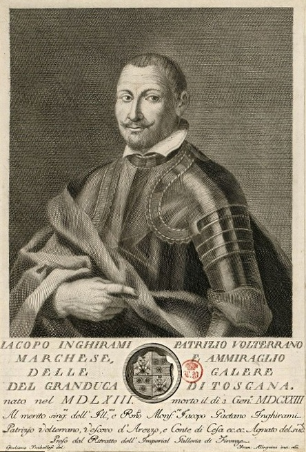 Annotated engraving of Jacopo Inghirami (1563-1623) by Giulio (Giuliano) Traballesi (1731-1812). Engraving in turn based on an earlier portrait from the Imperial Gallery of Florence. Text in Italian reads: Iacopo Inghirami Patrizio Volterrano Marchese E Ammiraglio Delle Galere Del Granduca Di Toscana nato del MDLXIII morto il di 3 Gen'o MDCXXIII Al merito sing've dell' Ill'mo'e Rmo Mons're Iacopo Gaetano Inghirami Patrizio Volterrano, Vescovo d'Arezzo, e Conte di Cesa ec. ec. Agnato del suc'o Preso dal Ritratto dell' Imperial Galleria di Fierenze Translation in